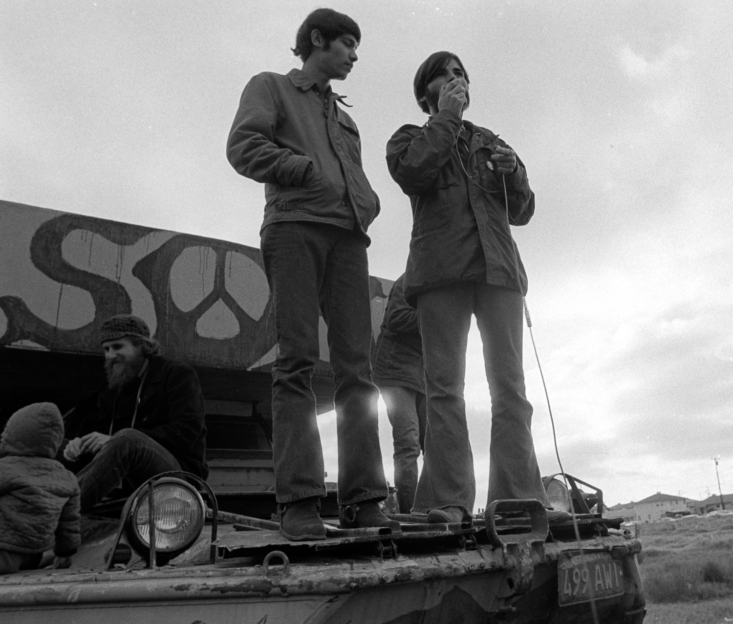 Two leaders of the Stop Our Ship movement (Bob Musa, left) (Larry Harris, right) outside the gates of NAS Alameda, rallying support for the campaign to petition Congress to keep the U.S.S. Coral Sea from sailing into combat in the Vietnam War.